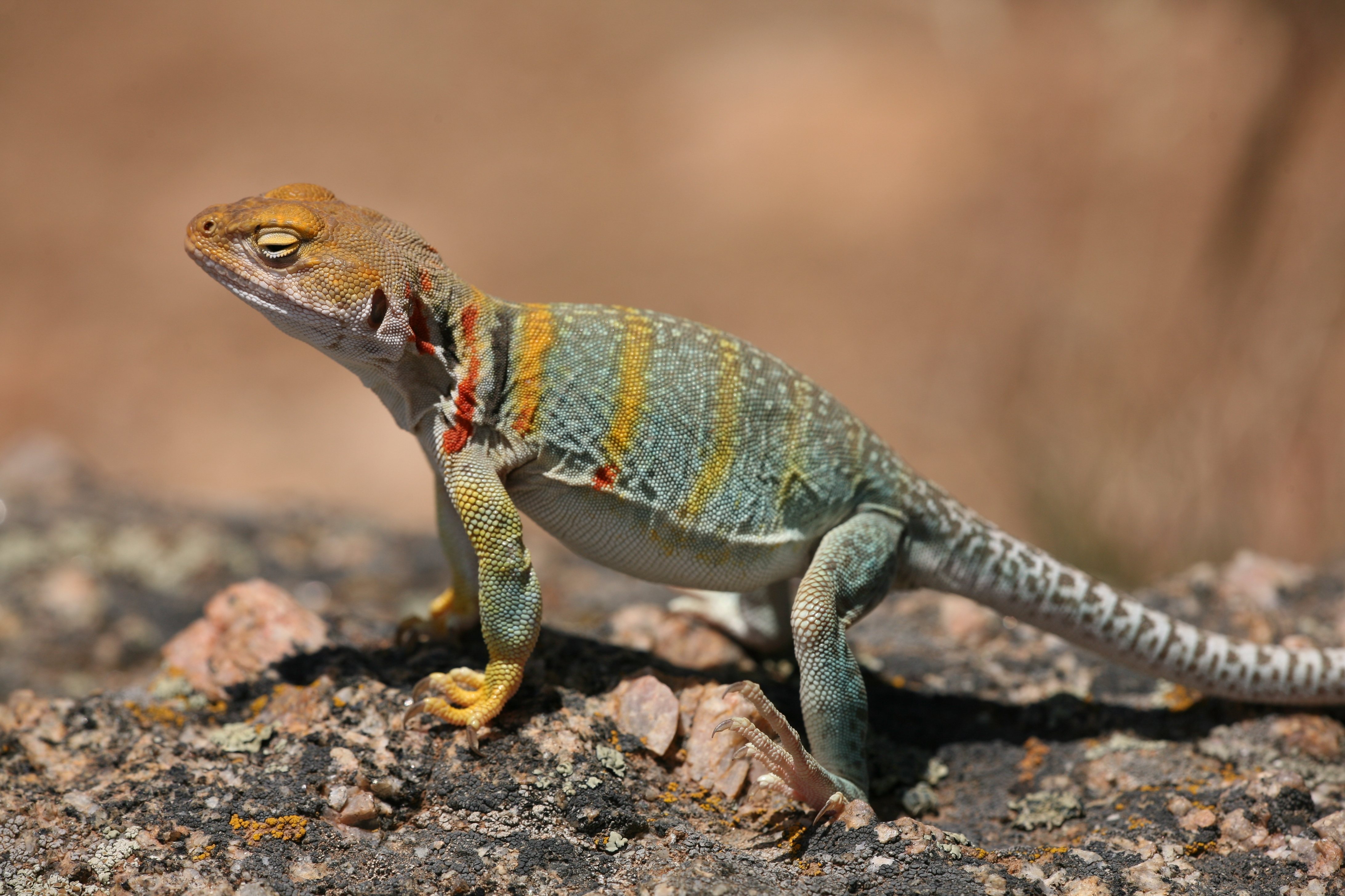 Collared Lizard (Crotaphytus collaris) in Black Canyon of the Gunnison National Park